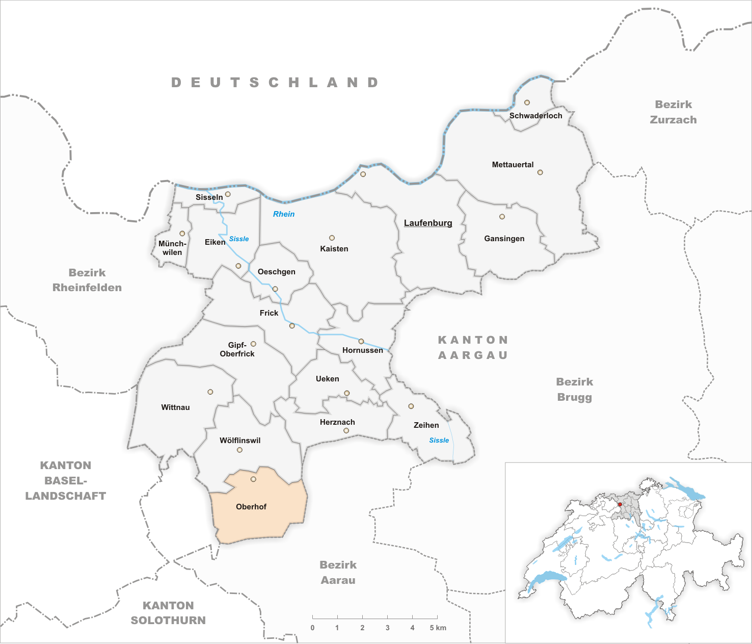 Municipality Oberhof